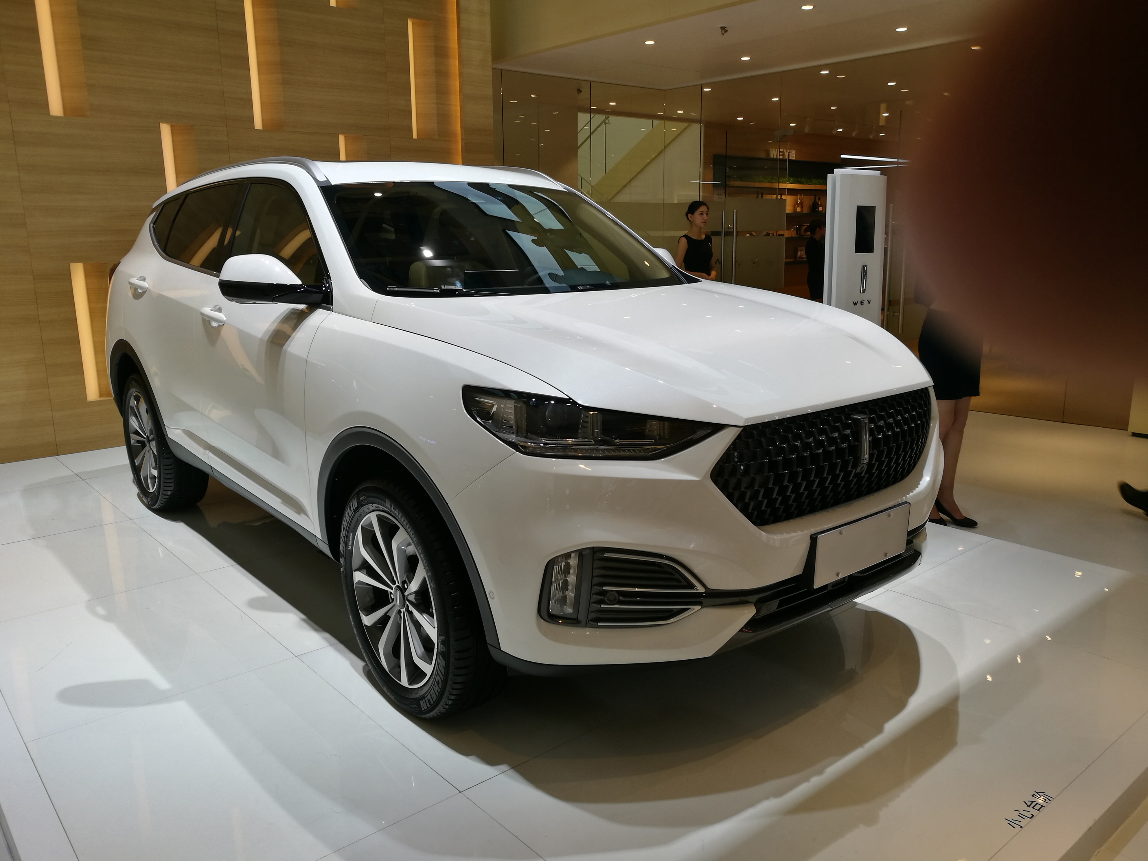 WEY VV6